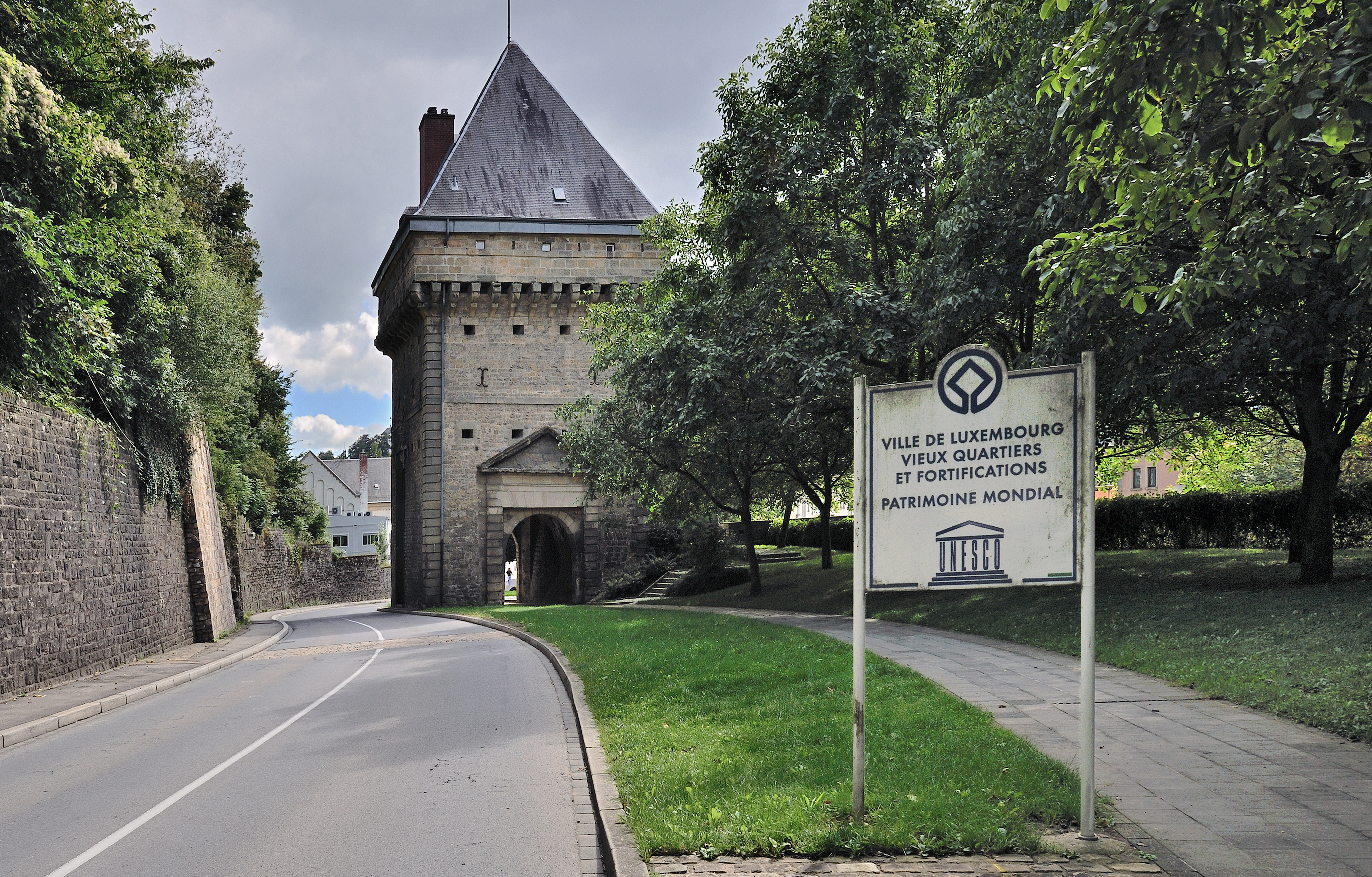 Luxembourg City, Pfaffenthal: porte des Bons-Malades, part of the ancient fortress. World Heritage Site.